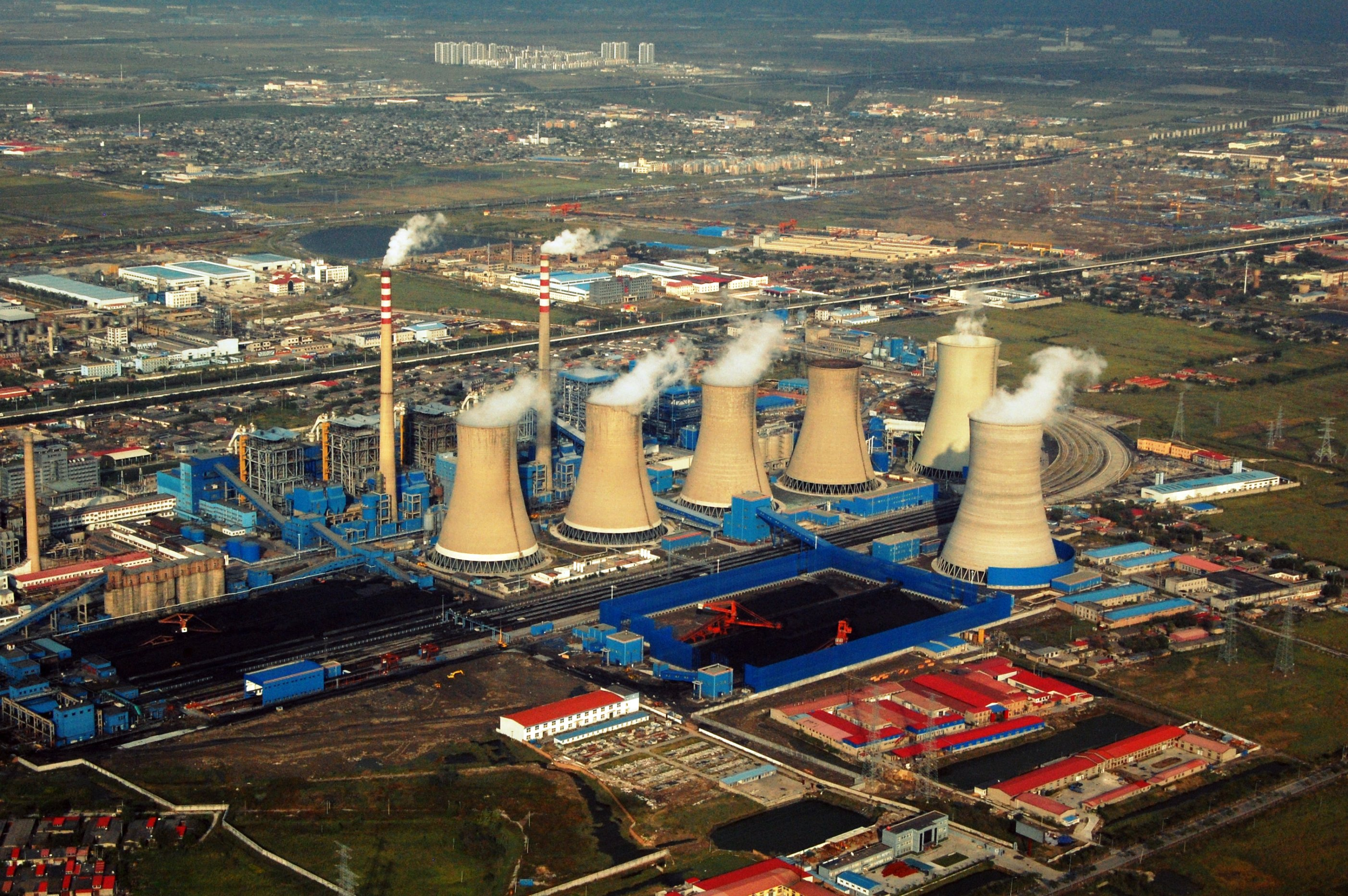 October 2010. This is Jungliangcheng Power Plant. Follow the coordinates and compare photo with map.